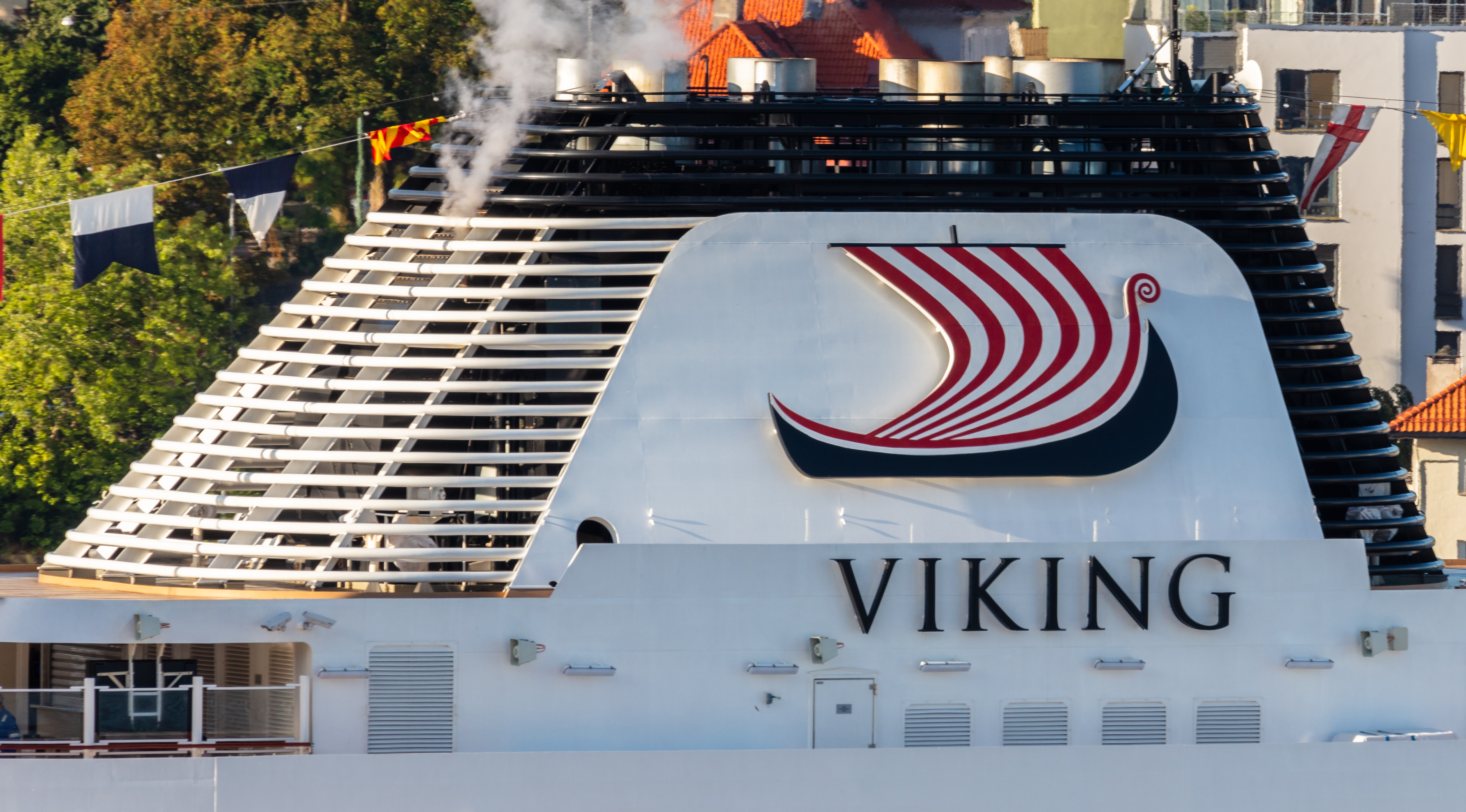 Logo of Viking cruises, Bergen, Norway